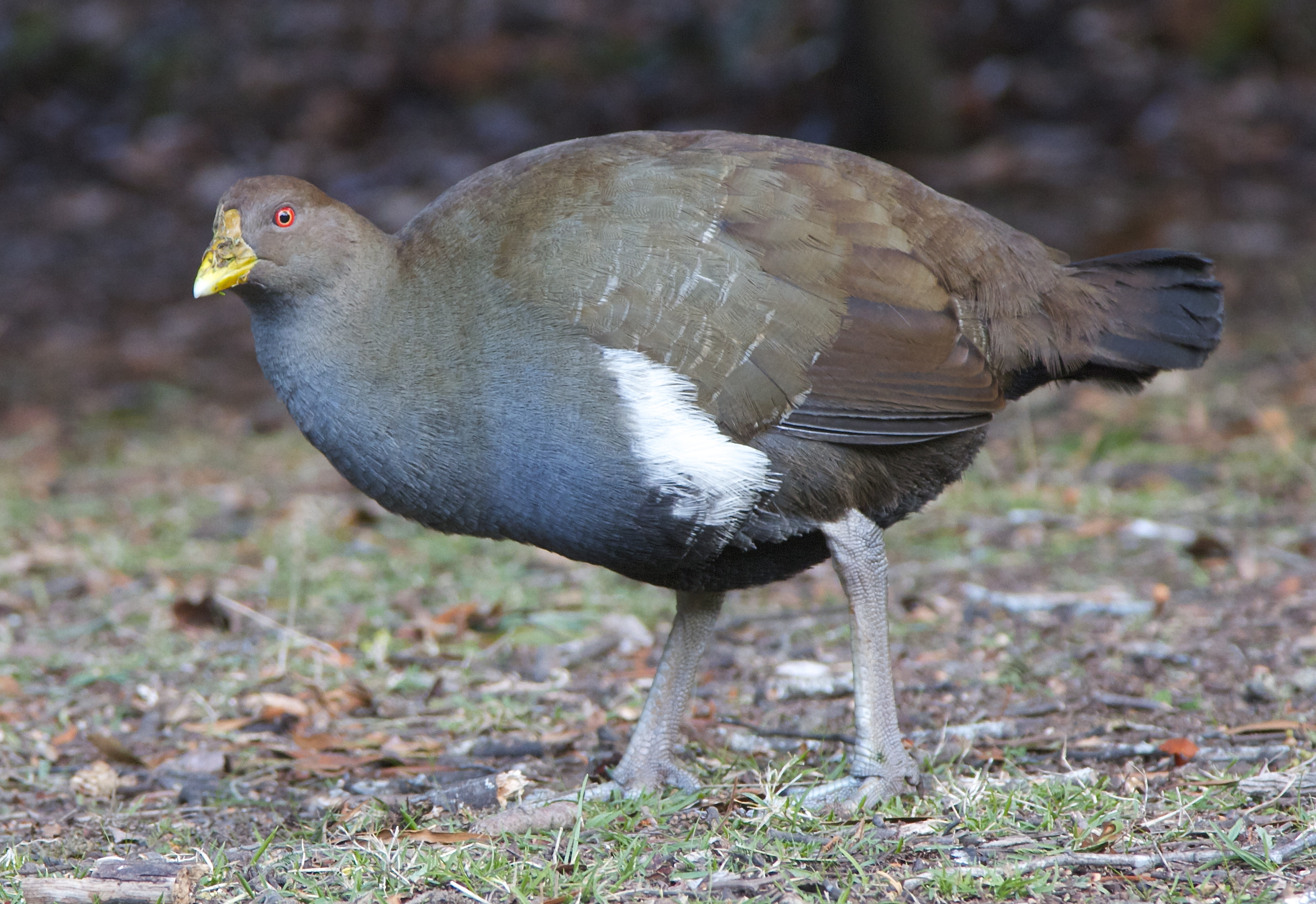 A Tasmanian Nativehen Gallinula mortierii at Mt Field National Park, Tasmania, Australia.